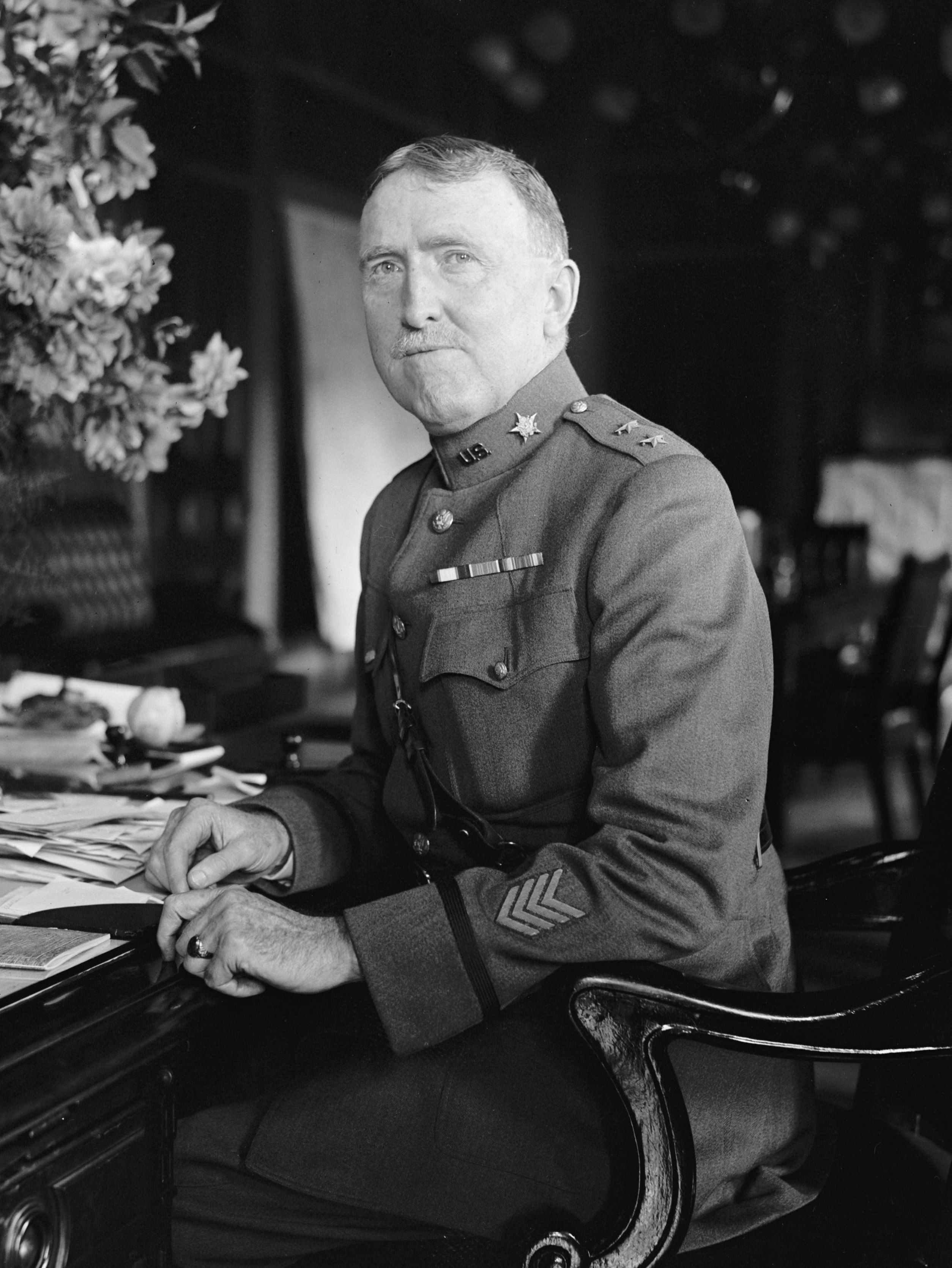 Title: Maj. Gen. J.L. Hines, Chief of Staff, 9/13/[24] Abstract/medium: 1 negative : glass ; 5 x 7 in. or smaller